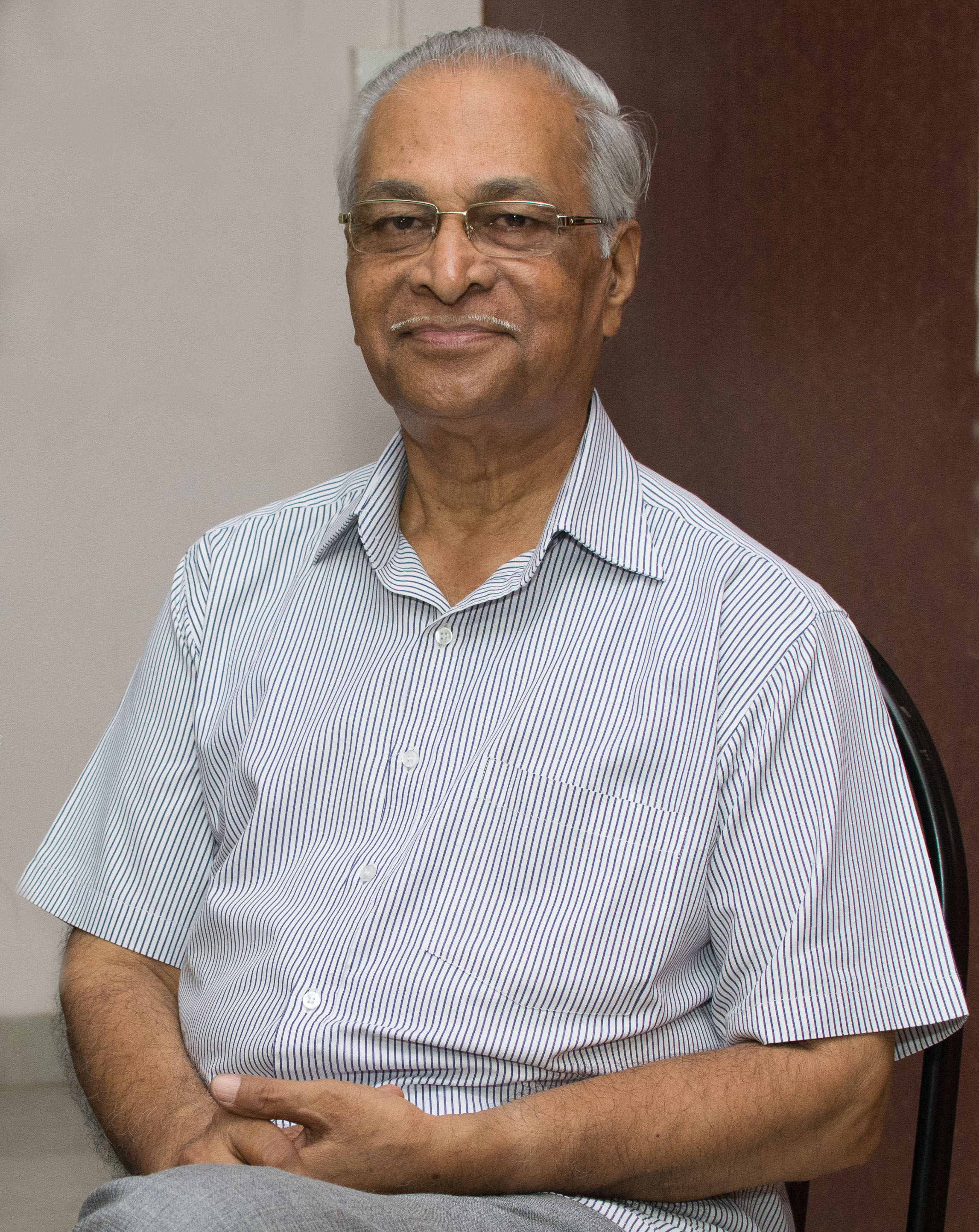 Photo of Uday Bhembre